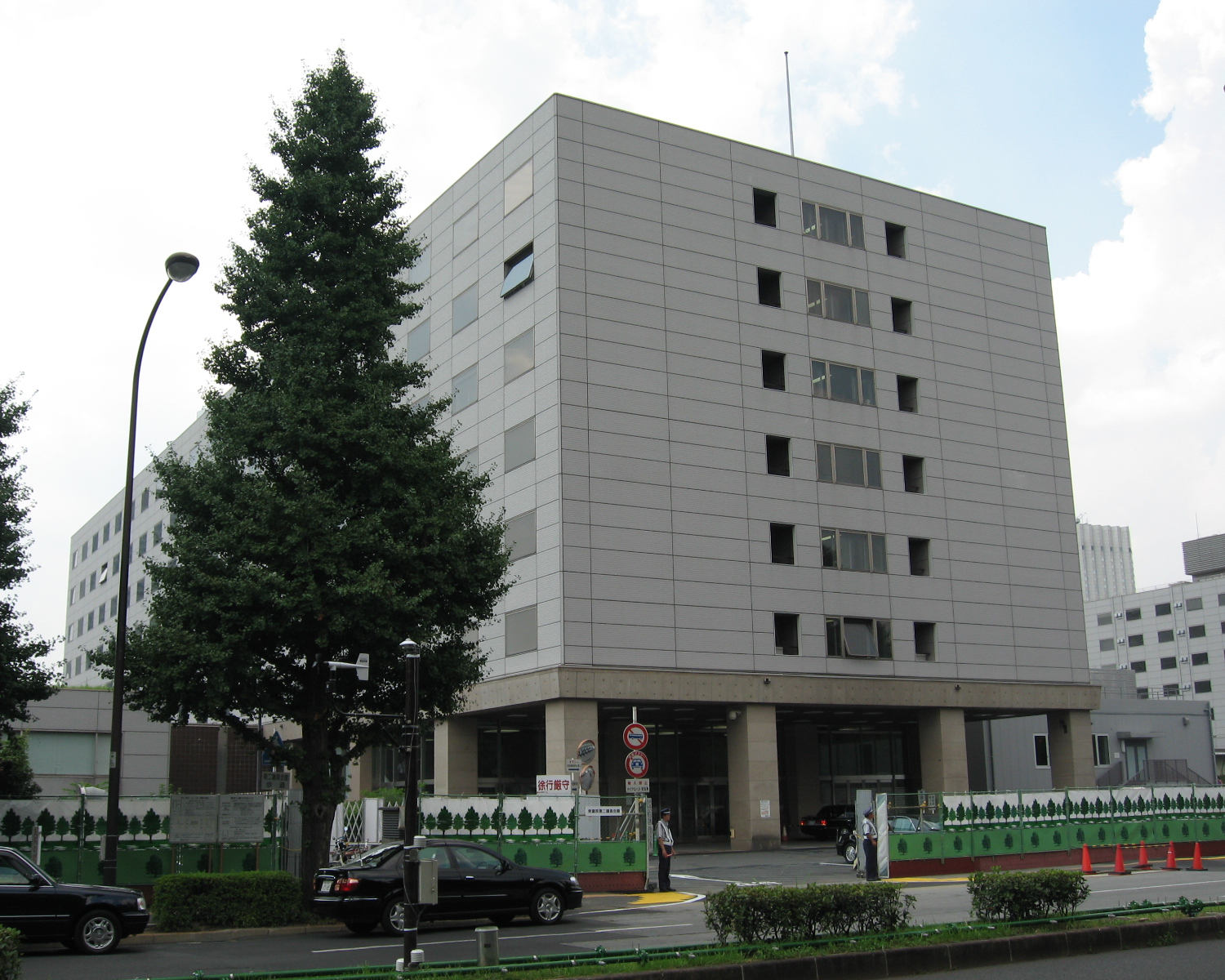 The Second Members' Office Building of the House of Representatives. 2-1-2 Nagatachô, Chiyoda, Tokyo.